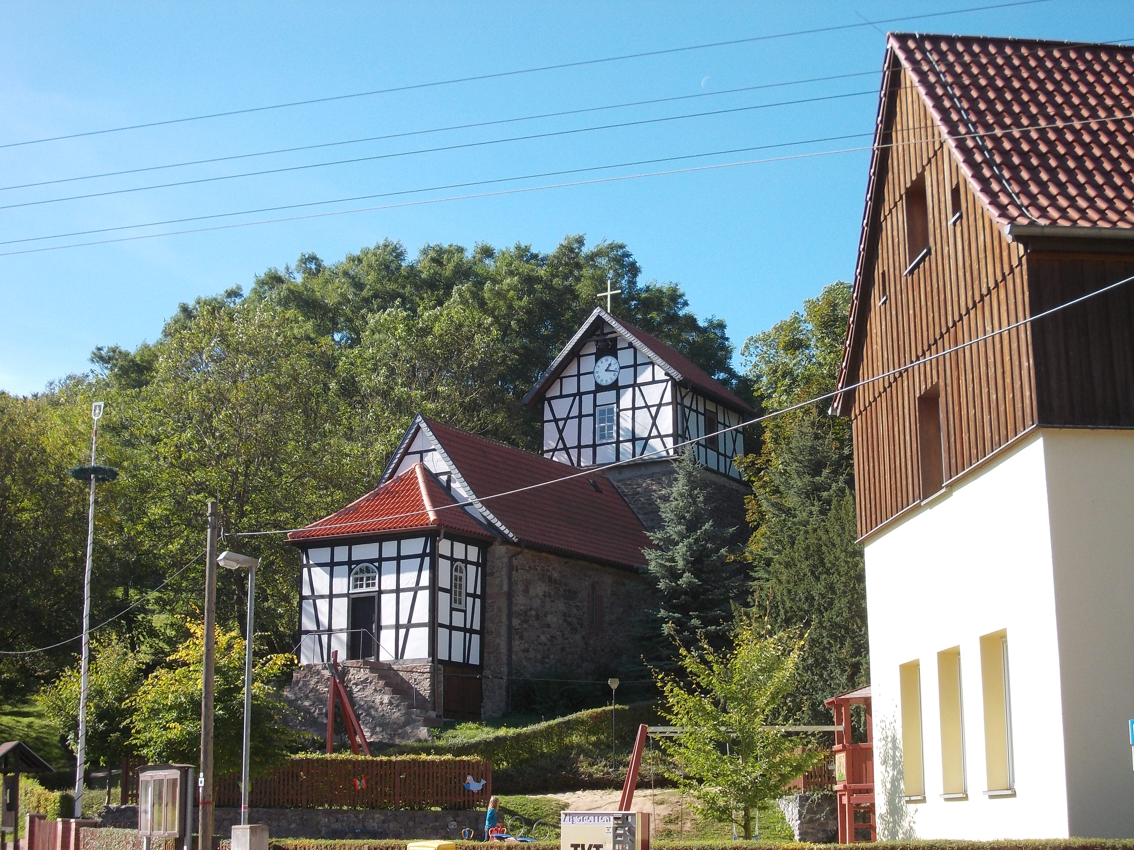 Saints Philip and James Church in Rodishain (Nordhausen, Thuringia)